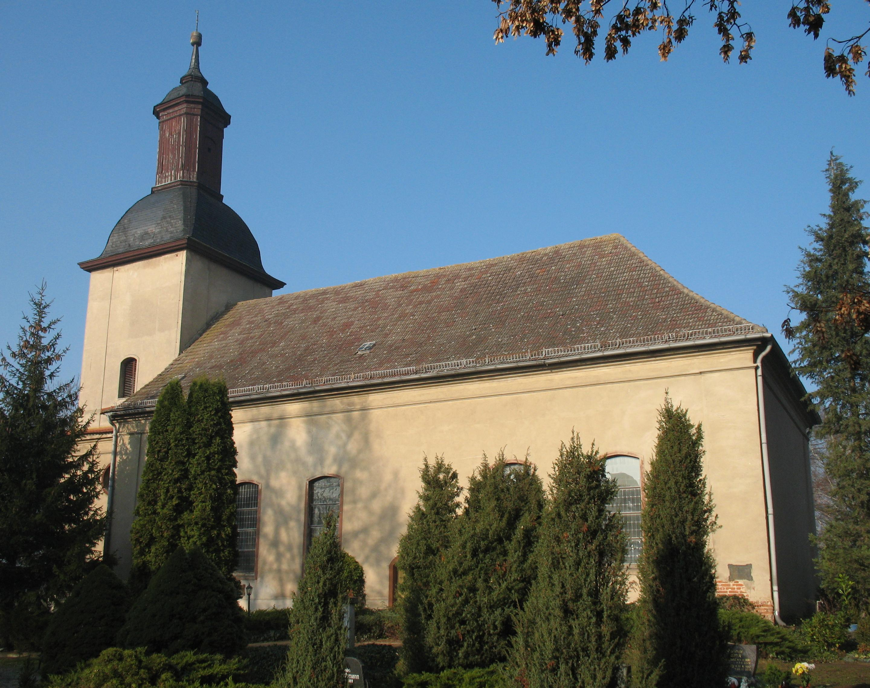 Church in Nauen-Berge in Brandenburg, Germany